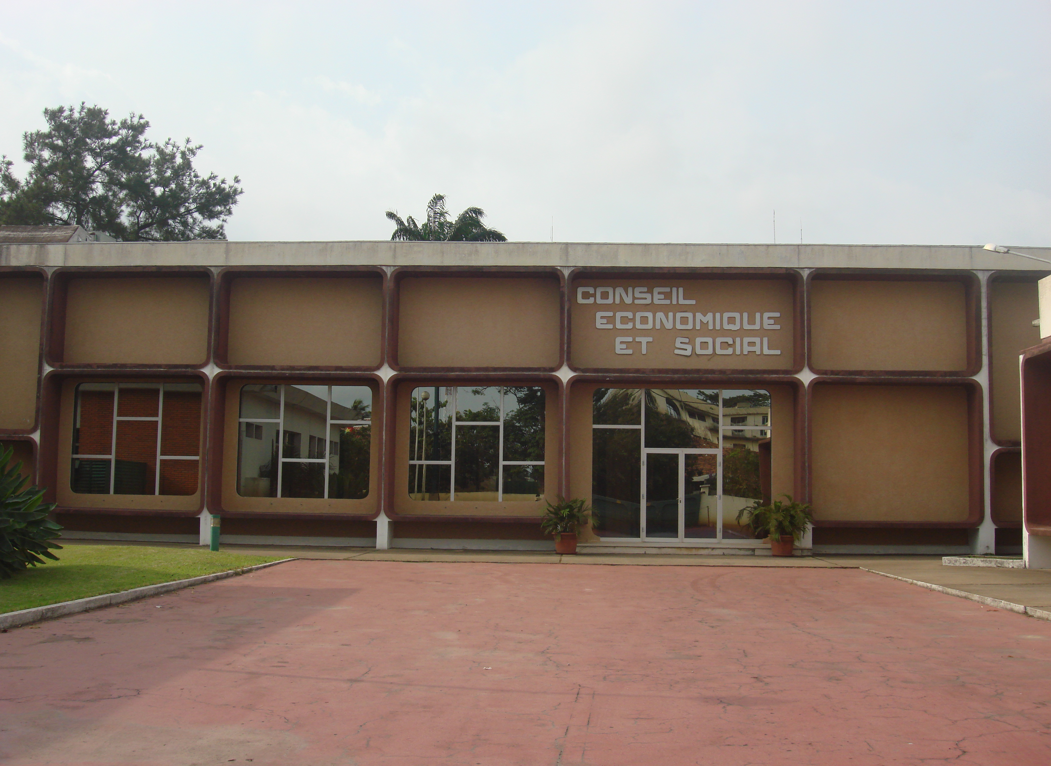 Economic and Social Council building, Côte d'Ivoire. Français